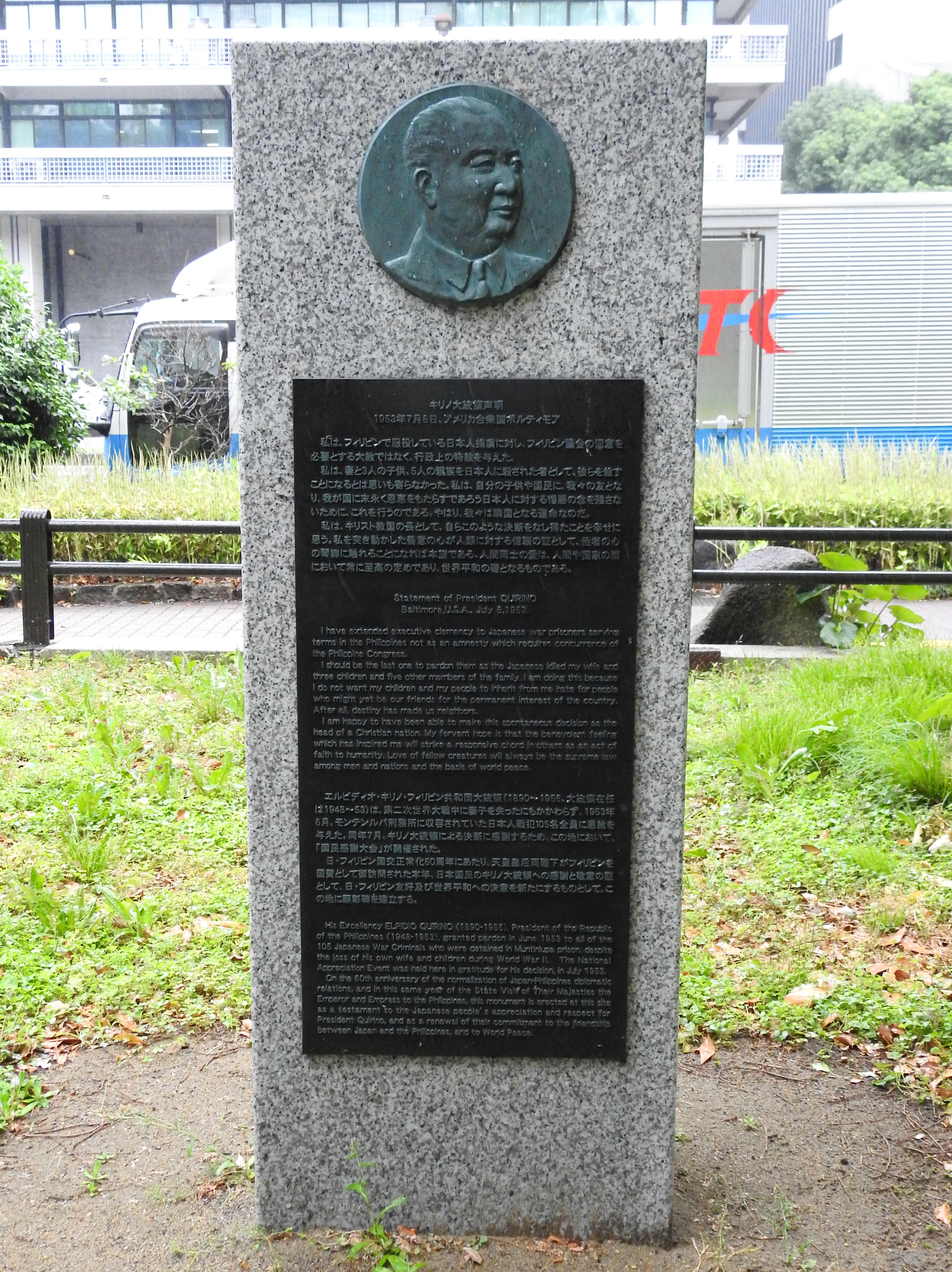 A memorial established to the Philippine President Elpidio Quirino in Hibiya Park, Chiyoda Ward, Tokyo, Japan. It includes a quote from him relating to the executive clemency he granted to Japanese prisoners of war.